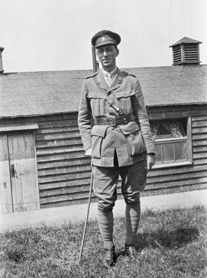 Captain (later Brigadier General) James Campbell Stewart, adjutant of the 5th Battalion AIF, in March 1915